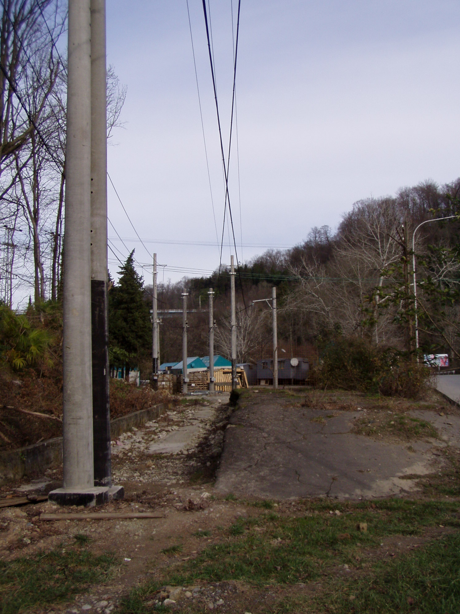 Matsesta former railways' platform, Sochi, Russia